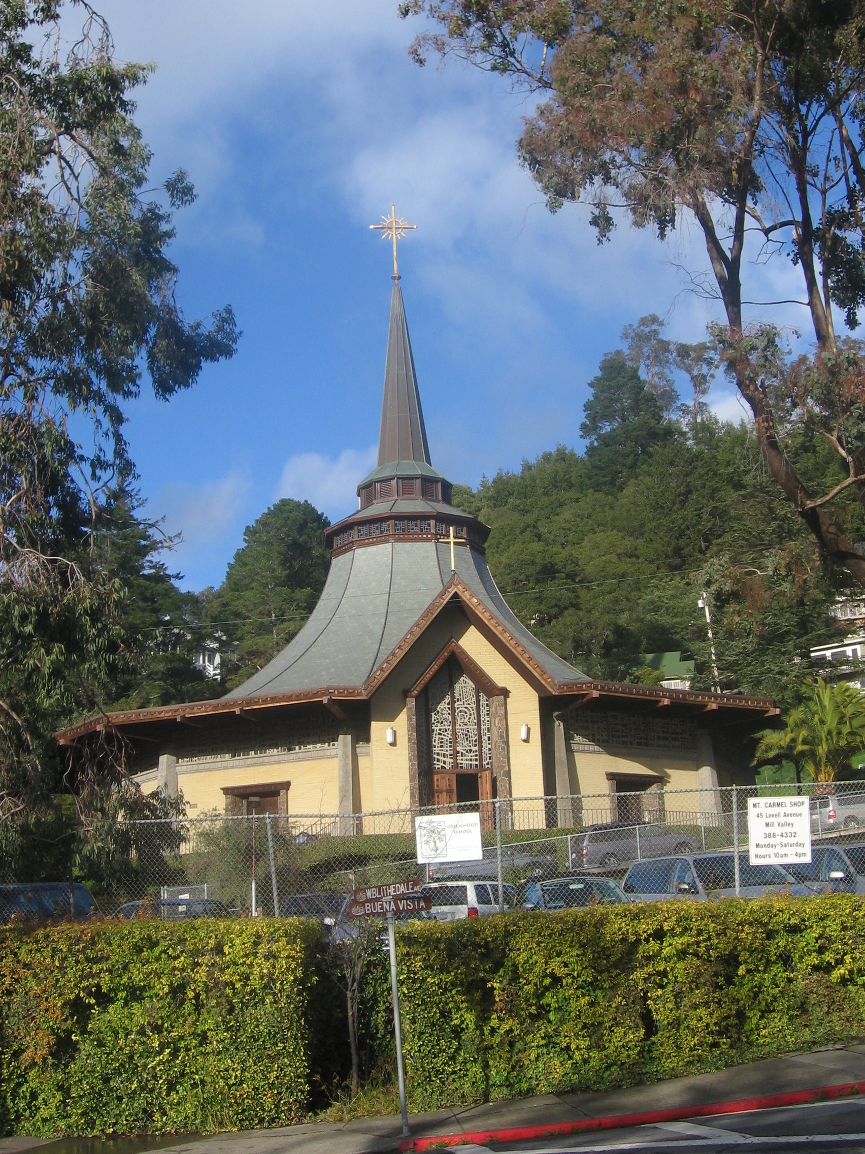 Mount Carmel Catholic Church, nicknamed the "Holy Oilcan". Located in Mill Valley, Marin County, California.